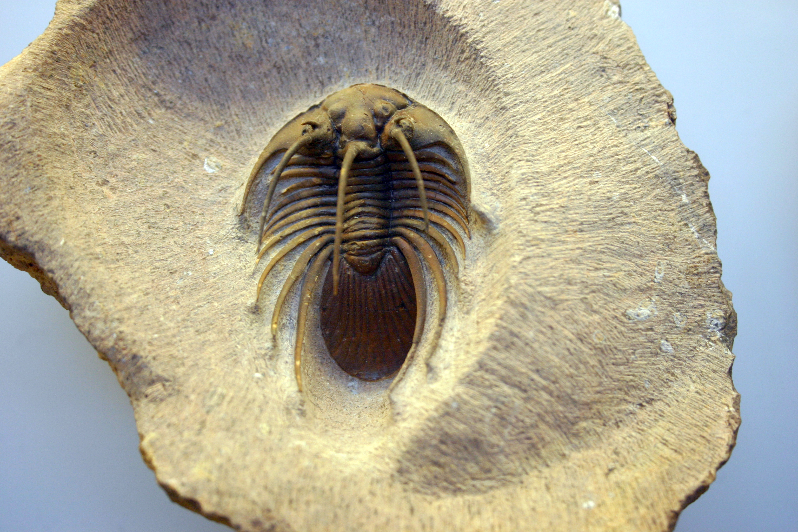 Kolihapeltis chlupaci from Djebel Oufaten, Morocco